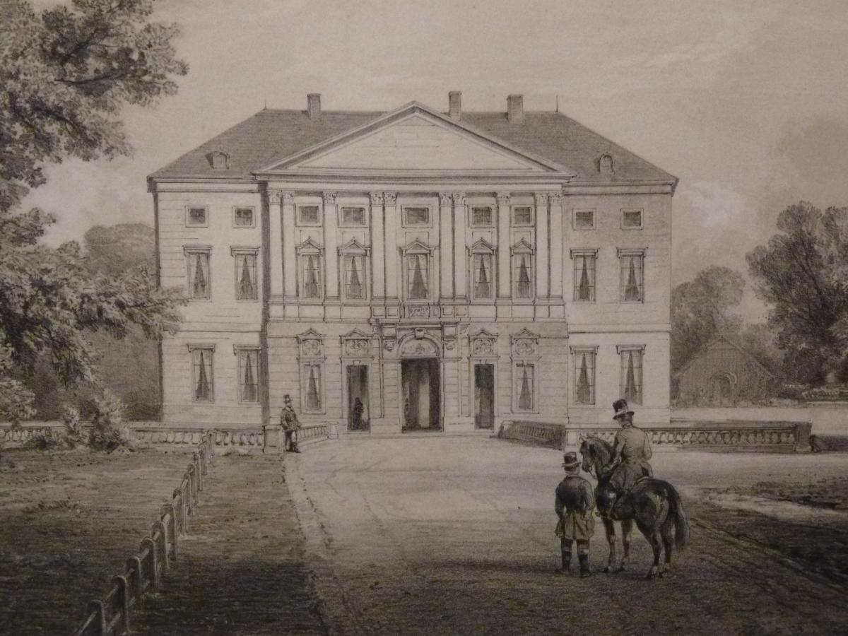 Frohsdorf west (entrance) facade